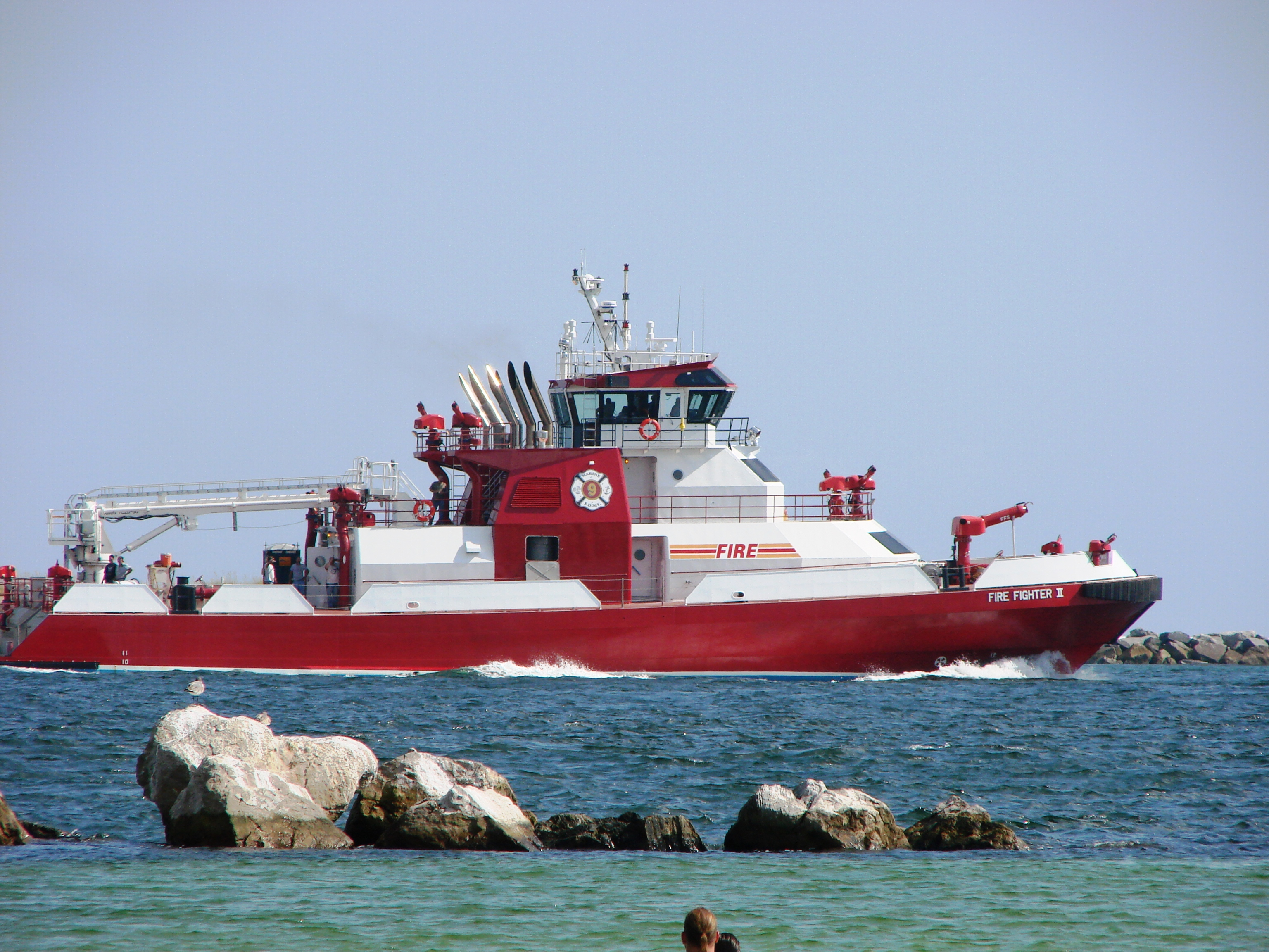 Fire Figher II Panama City, FL